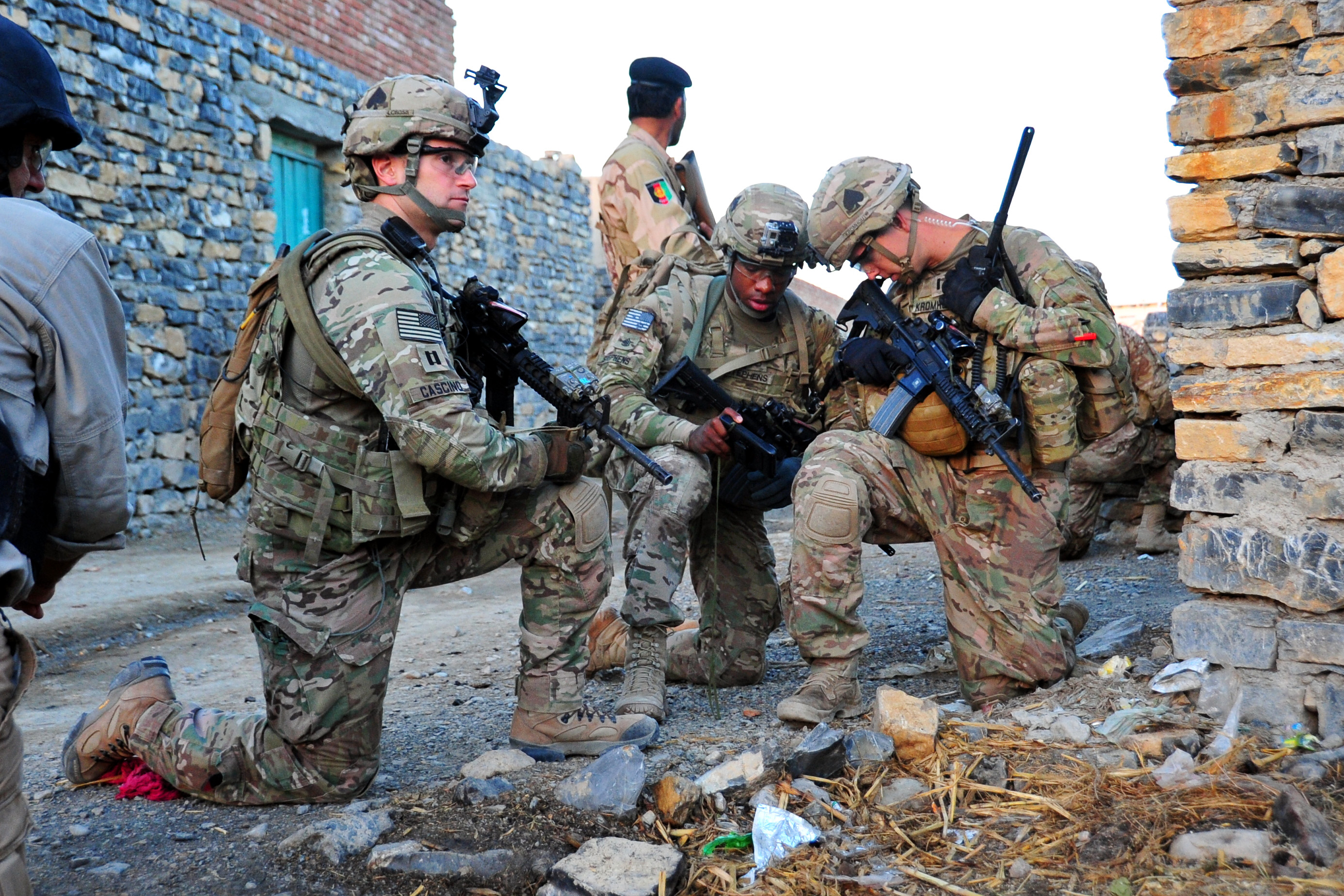 Capt. Lou Cascino, commander of Easy Company, 2nd Battalion, 506th Infantry Regiment, 4th Brigade Combat Team, 101st Airborne Division (Air Assault), pulls security while Staff Sgt. Eric Stephens and 1st Lt. James Kromhout verify their position during a partnered patrol in Madi Khel, Khowst Province, Afghanistan, Oct. 20, 2013. The Soldiers conducted a partnered operation with the newly formed Khowst Provincial Response Company. The operation was used to validate the training that the Khwost PRC recently received and ensure that illegal weapons were not being stored in historical weapons cahce points.